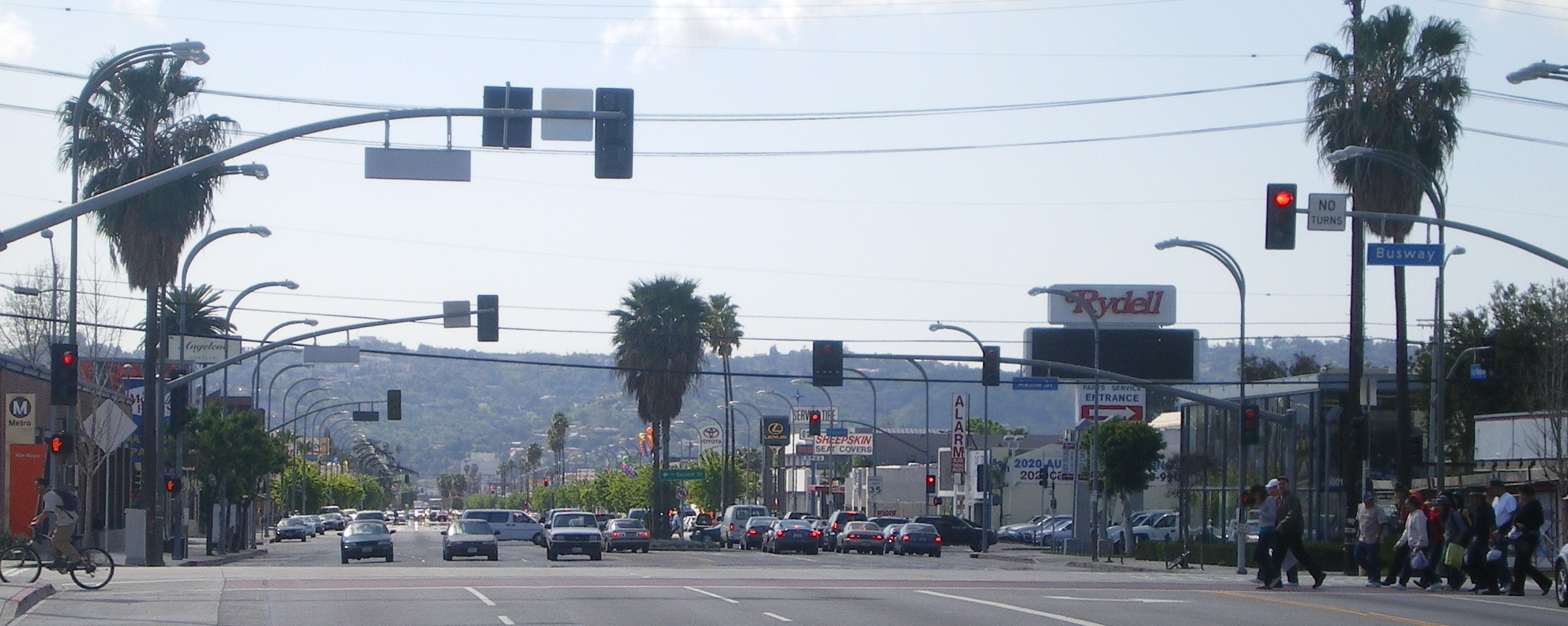 Van Nuys Boulevard — in Van Nuys, central San Fernando Valley, Los Angeles, California. View to south, towards Sherman Oaks and the Santa Monica Mountains.